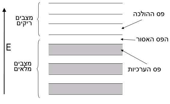 This image was copied from en. The original description was: Simple diagram of semiconductor band structure, showing a few bands on either side of the band gap. Drawn by Tim Starling